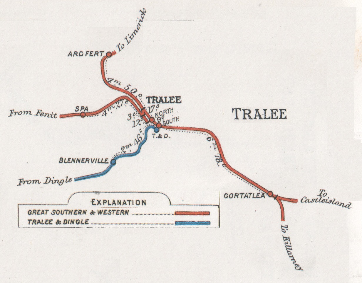 Tralee rail connections in the early 1900s